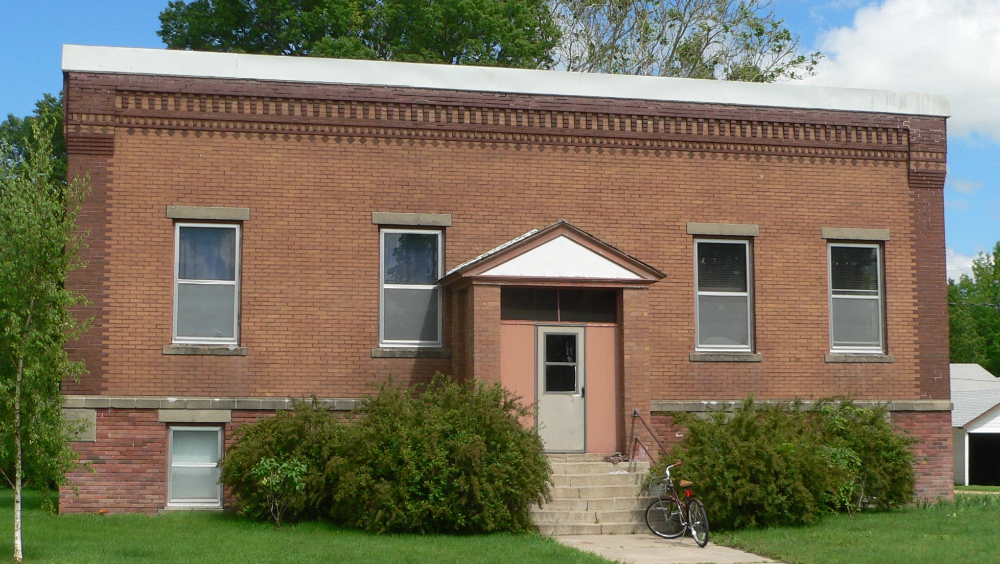 Burwell Carnegie Library at southeast corner of 7th and G Streets in Burwell, Nebraska; seen from the west. The building was constructed in 1914; it is listed in the National Register of Historic Places. It no longer serves as Burwell's library.